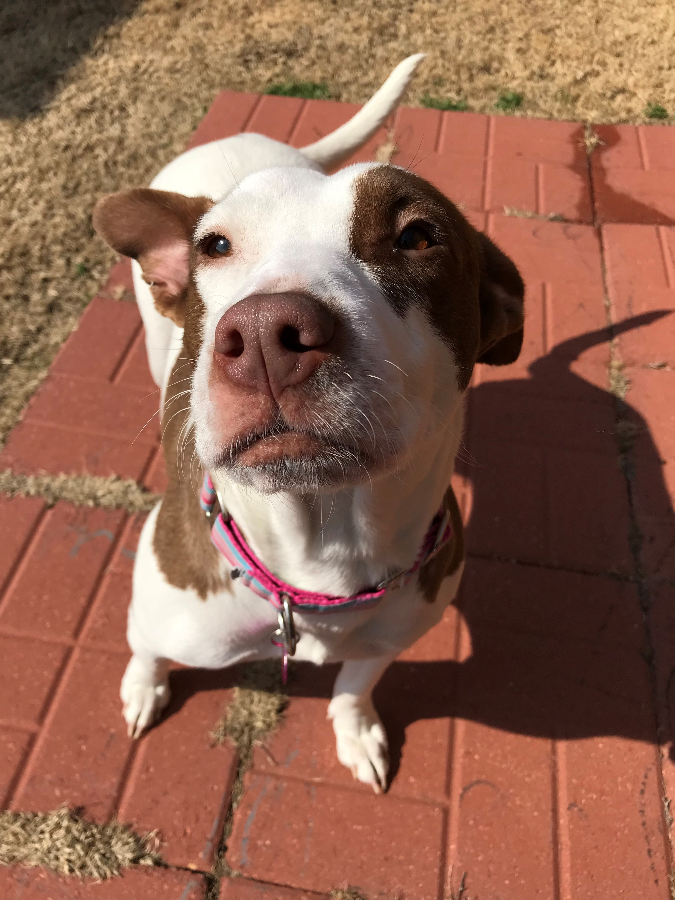 Here is a picture of a dog, also know as a "doggo" or "pupper".